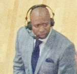 Kenny Smith ("The Jet") anchoring NBA on TNT pregame show before game 5 of the 2011 NBA Eastern Conference finals)